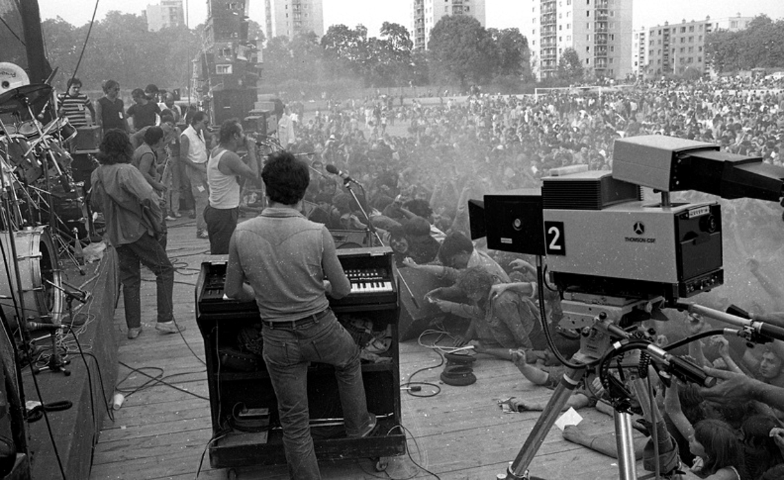 1983. Jubileumi Rockfesztivál, Edda Művek, Népkerti pálya